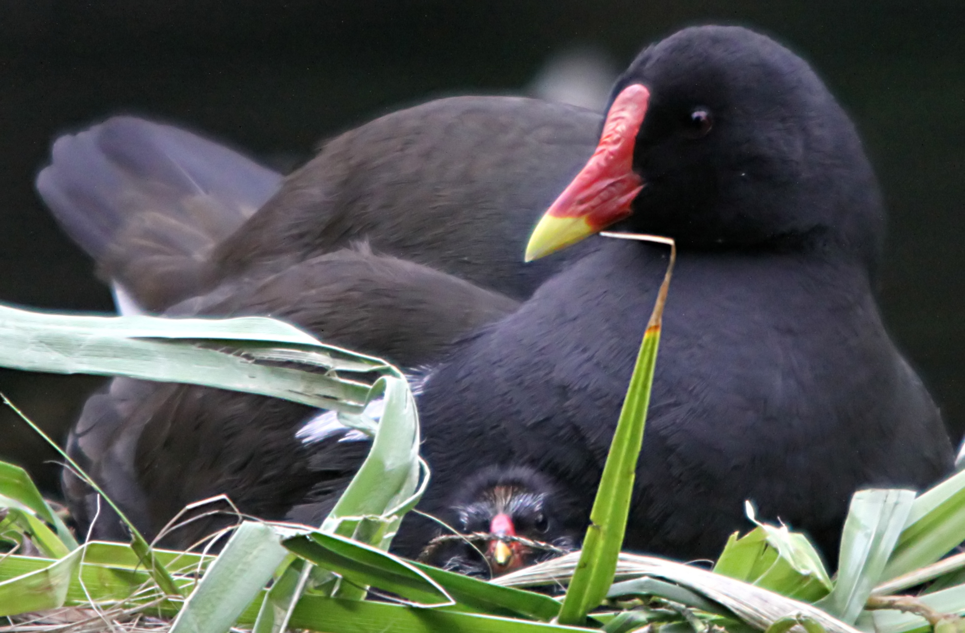 Moorhen and chick, Hackbridge, Croydon, England